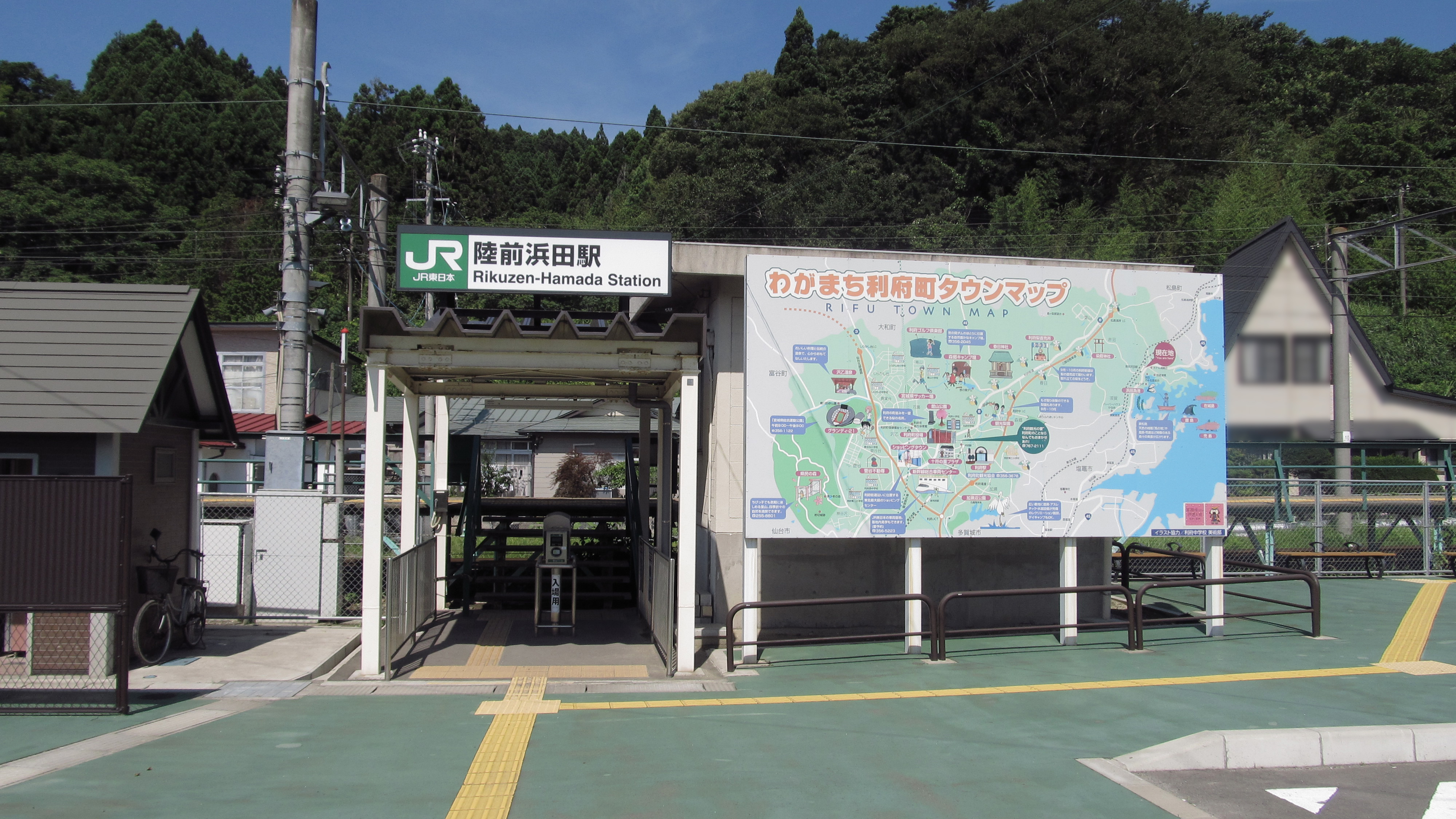 The entrance of Rikuzen-Hamada Station on the Senseki Line, Rifu town, Miyagi, Japan